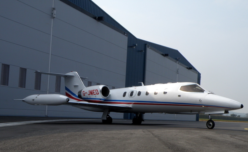 Learjet 35A belonging to Air Medical Ltd